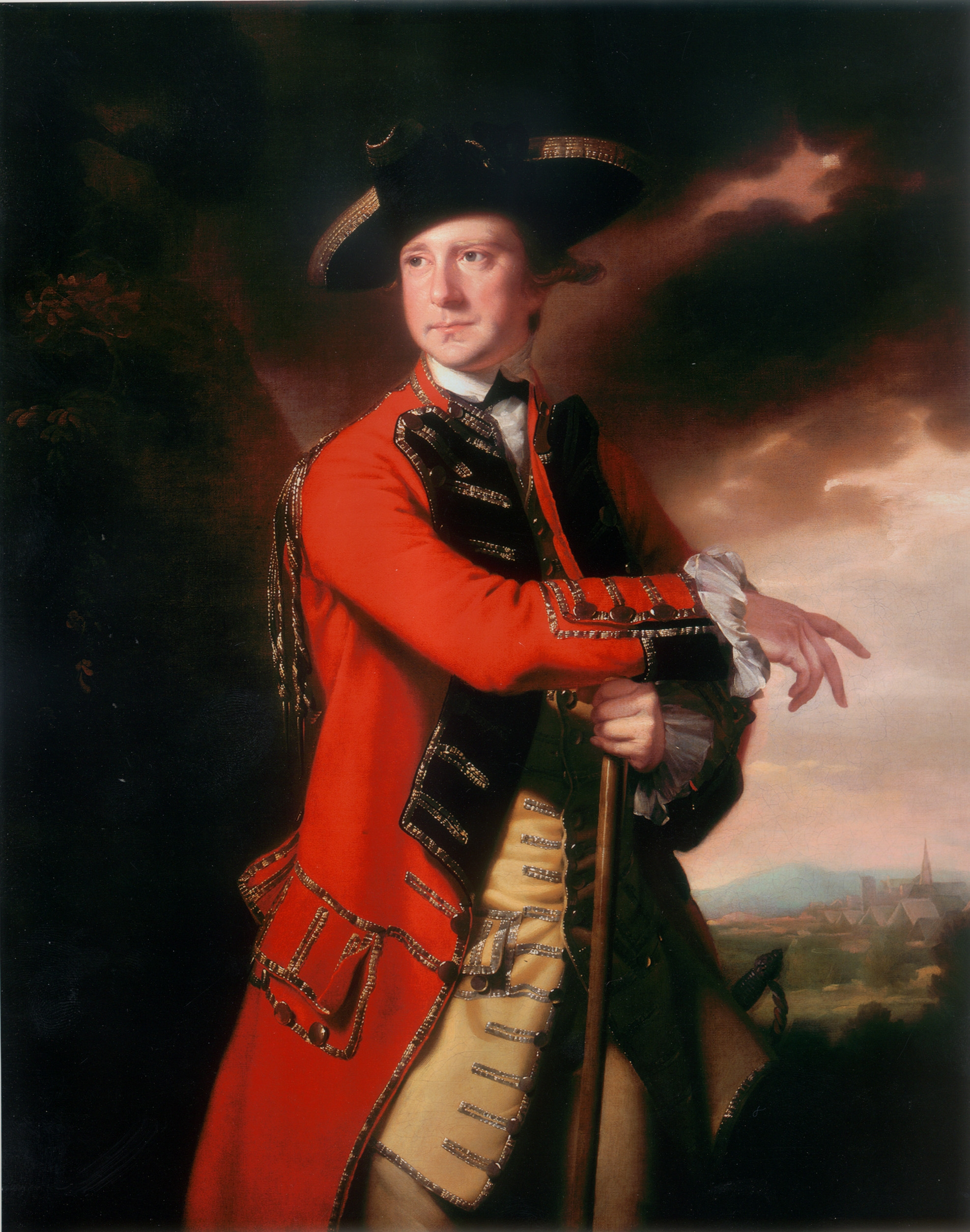 Major Sir Alexander Hope, 4th Baronet (1728 - 1794)